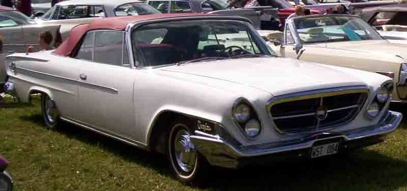 Chrysler 300H Convertible 1962